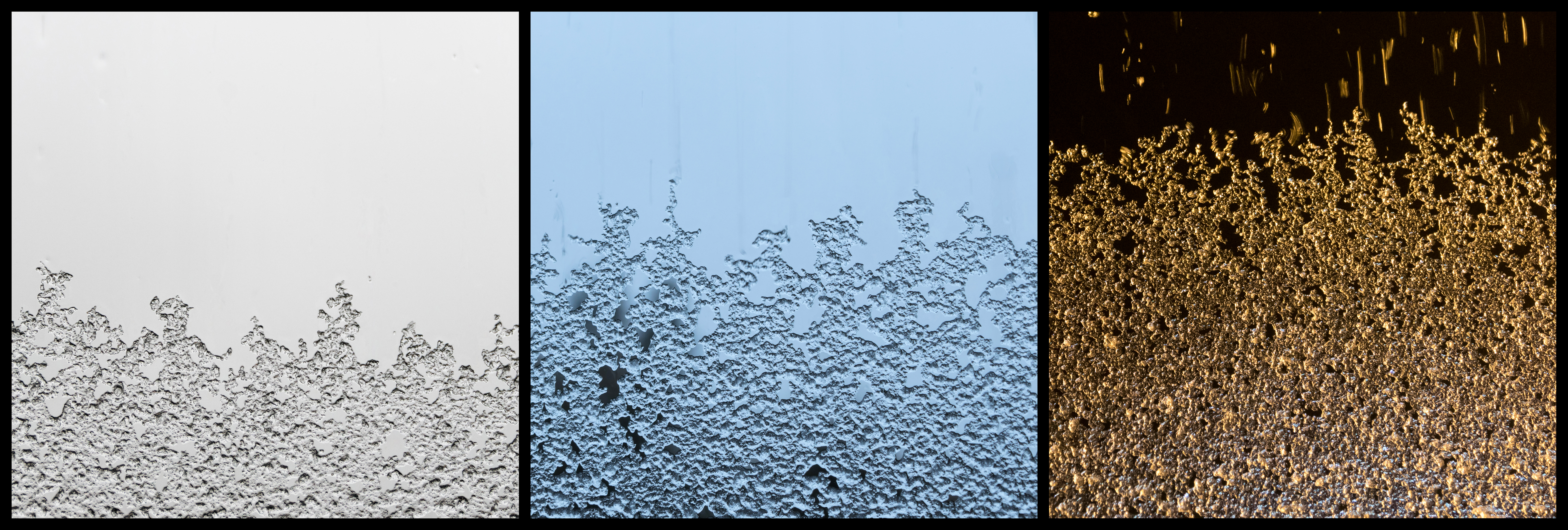 Slush deposited on the lower part of a window pane during snowing mixed with rain in Gåseberg, Lysekil Municipality, Sweden. The slush was photographed as it accumulated, first in daylight, then in blue dusk and last at night illuminated from the outside by a sodium street light and a halogen floodlight, giving a mixed light source. The camera position is not exactly the same in each frame, since I just took the photos when I saw the slush growing on the window. The idea of doing a triptych came much later when I was processing the photos. The size of the photos are scaled to match the size of the "slush particles" since they were taken at different distances from the window. The relative height of the slush deposit is correct. As the slush hit the window, it slid downwards (causing some motion blur) and became more compacted.